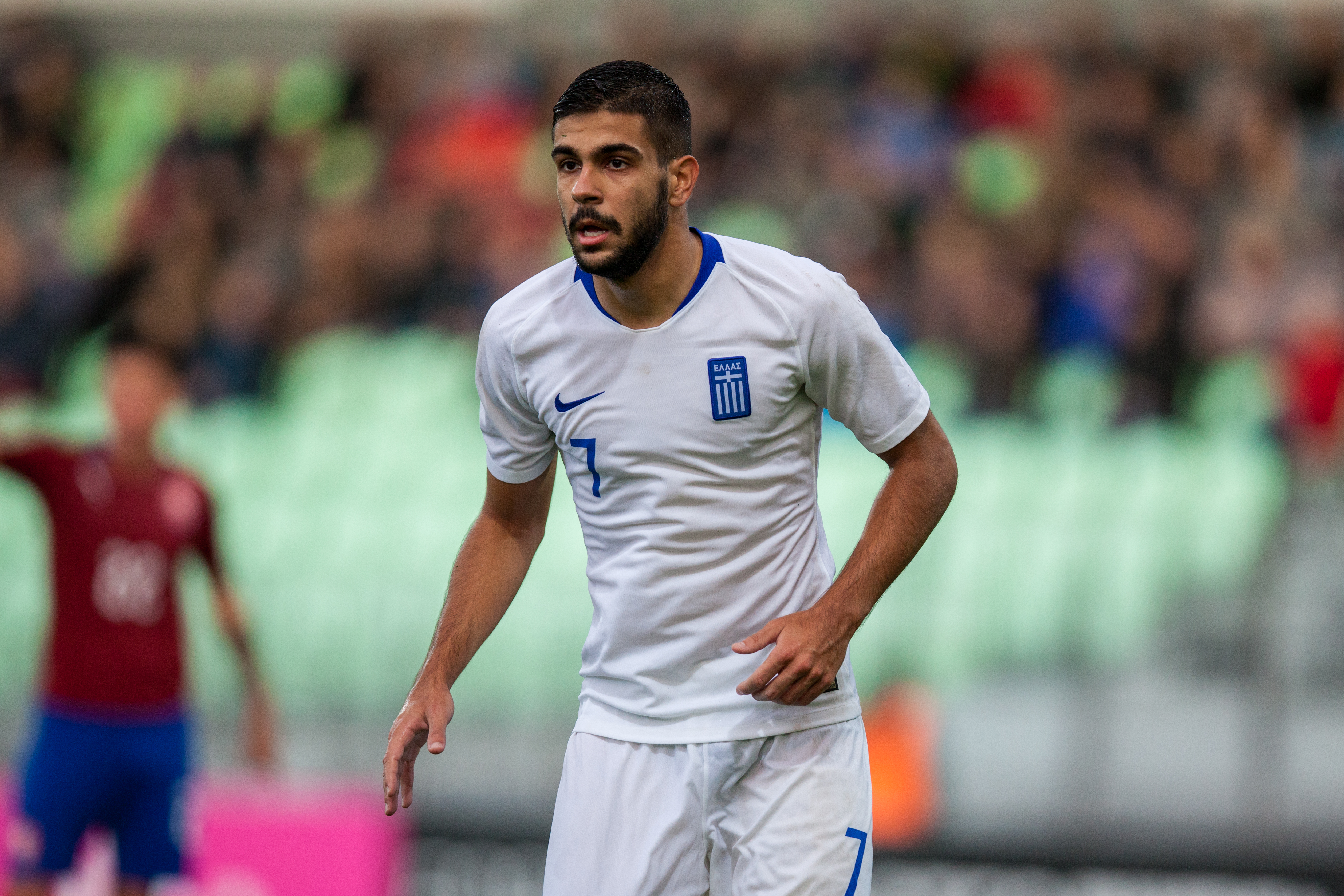 Georgios Ntaviotis in an internatinoal association football match of European Under-21 Championship Qualifying Round between the Czech Republic and Greece, Městský stadion Karviná, Karviná District, Moravian-Silesian Region, Czechia Personality rights warningAlthough this work is freely licensed or in the public domain, the person(s) shown may have rights that legally restrict certain re-uses unless those depicted consent to such uses. In these cases, a model release or other evidence of consent could protect you from infringement claims.